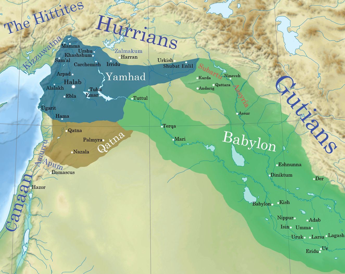 Yamhad kingdom at its greatest extent including vassal kingdoms. the Babylonian empire include vassals not directly annexed, mainly Subartu and Assyria.